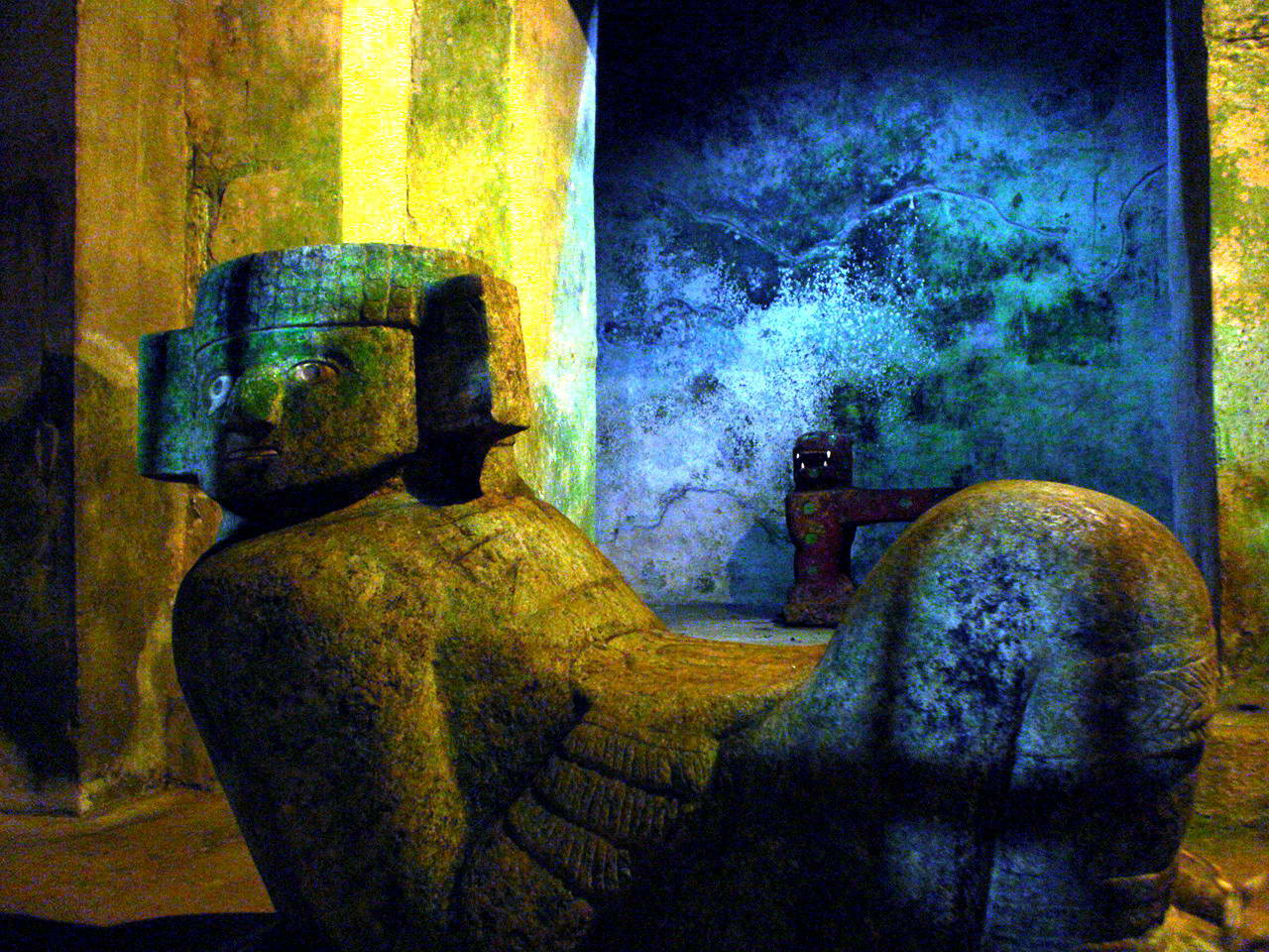 Imagen del Dios Chac Mool, ubicado dentro de una camara en la piramide de Kukulcán en Chichén Itzá. Detras del Dios, la estatua del Jaguar de ojos de Jade. Fotografia tomada sin flash para evitar daños a los colores naturales de las estructuras. Image of the God Chac Mool, located inside a chamber in the Temple of Kukulkán, at Chichén Itzá. Behind of the God, the statue of the Jade Eyed Jaguar. Picture taken without flash to avoid damage to the original colors of the structures.